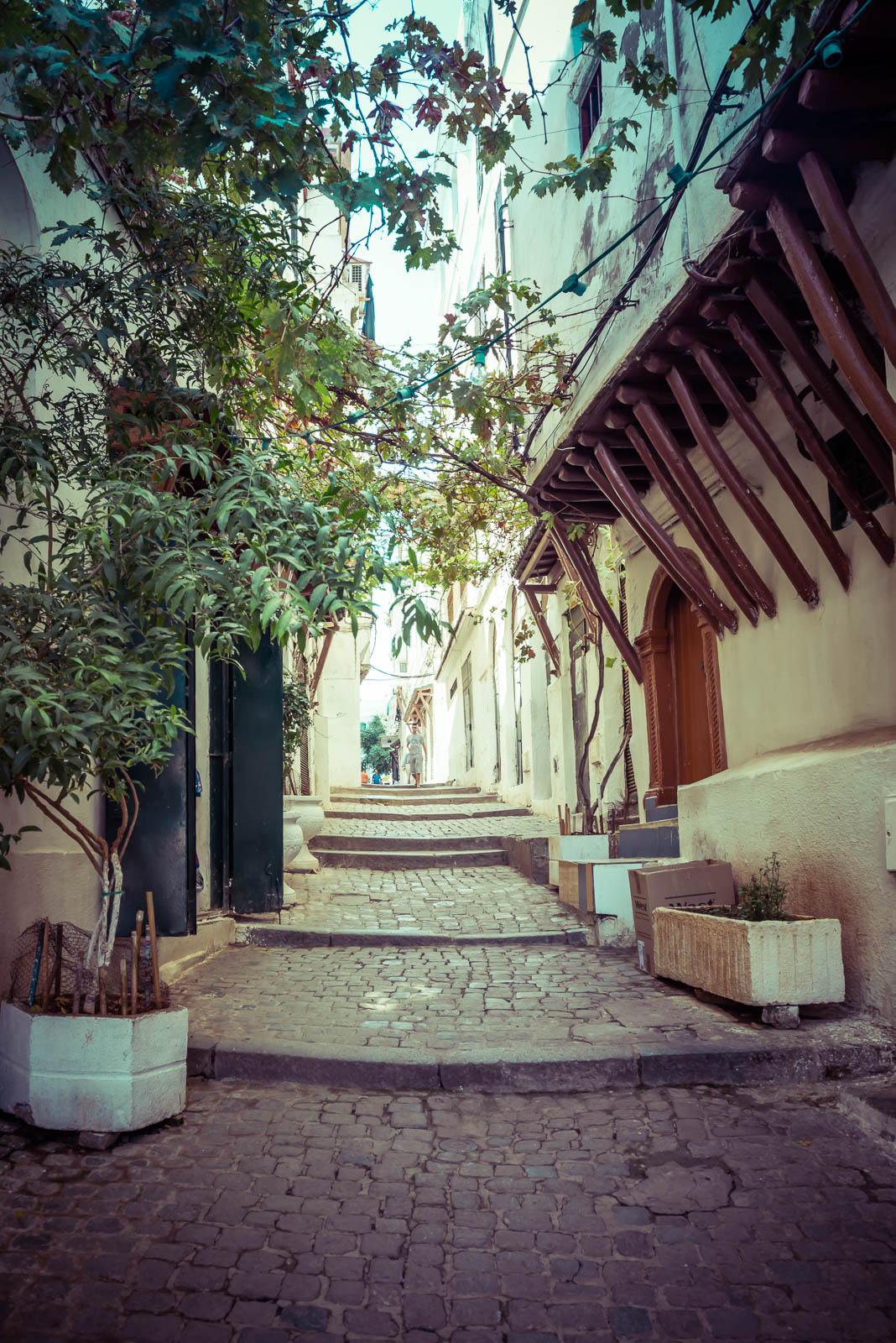 in the streets of the Casbah in Algiers